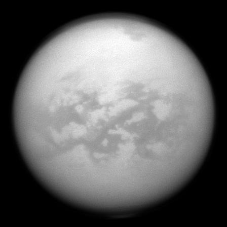 The Cassini spacecraft once again dons its special infrared glasses to peer through Titan's haze and monitor its surface. Here, Cassini has recaptured the equatorial region dubbed "Senkyo." The dark features are believed to be vast dunes of hydrocarbon particles that precipitated out of Titan's atmosphere. Titan, Saturn's largest moon, is 3,200 miles (5,150 kilometers) across. For more on Senkyo, see PIA08231. This view looks toward Saturn-facing hemisphere of Titan. North on Titan is up and rotated 4 degrees to the left. The image was taken with the Cassini spacecraft narrow-angle camera on June 16, 2013 using a spectral filter sensitive to wavelengths of near-infrared light centered at 938 nanometers.